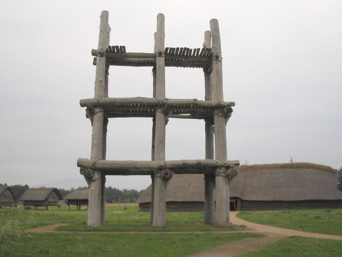 三内丸山遺跡復元六本柱建物。The Reconstructed Pillar Supported Structure in Sannai-Maruyama site, Aomori.